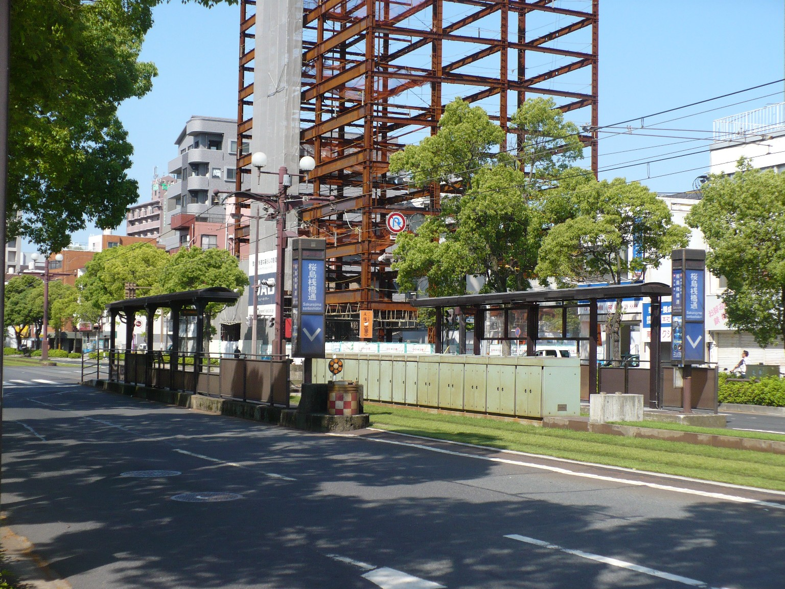 Sakurajimasambashidori tramstop of Kagoshima city transportation bureau, Kagoshima city Kagoshima prefecture Japan